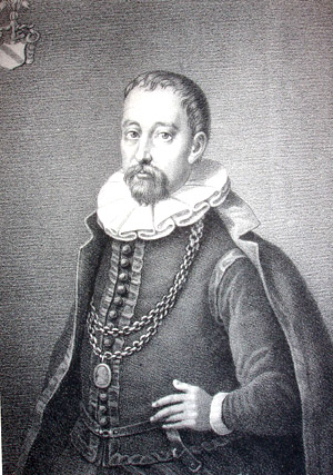 Arild Huitfeld (1546-1609). Danish historian and politician